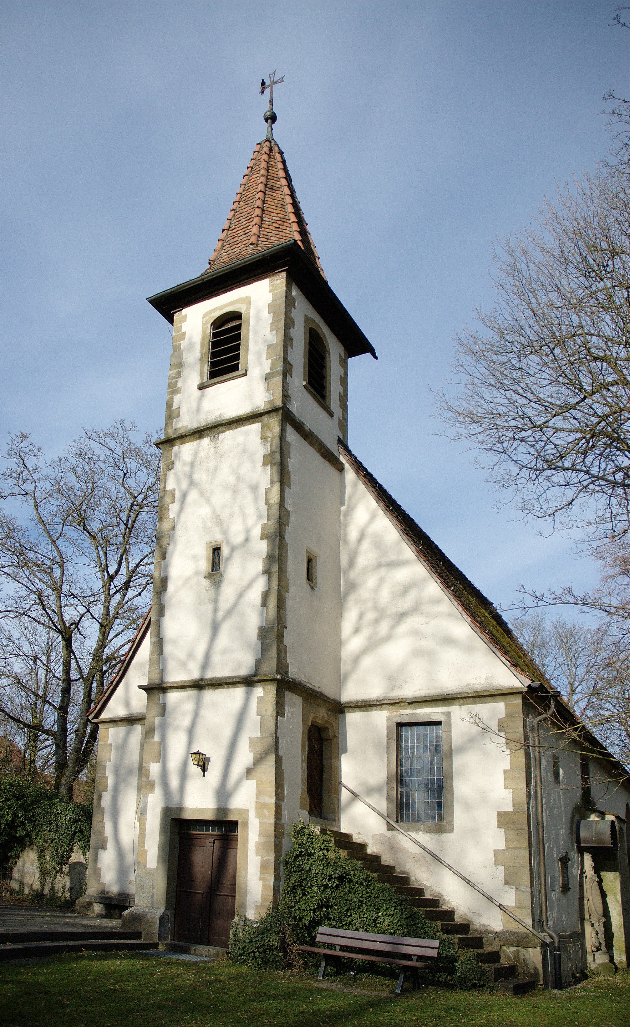 Friedhofskapelle Crailsheim